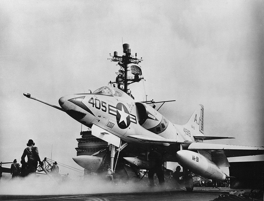 A Douglas A4D-2 Skyhawk (BuNo 144919) of attack squadron VA-81 Crusaders, Carrier Air Group Eight (CVG-8) about to launch from the port forward catapult of the aircraft carrier USS Forrestal (CVA-59) in 1962. In the same year the A4D-2 was redesignated A-4B, VA-81 was renamed Sunliners on 3 April 1963, and CVG-8 was redesignated Attack Carrier Air Wing Eight (CVW-8) on 20 December 1963. The aircraft is carrying a AGM-12 Bullpup missile on the centerline station.